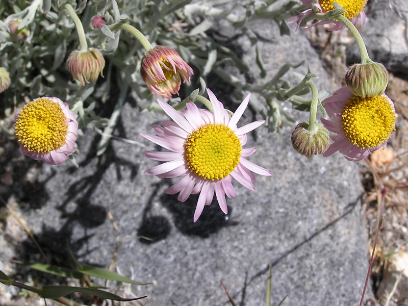 Erigeron parishii. US Forest Service photo, no copyright.